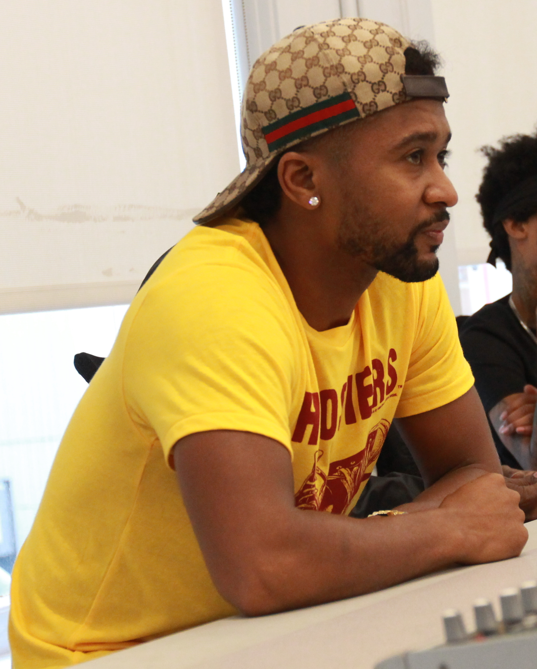 Zaytoven and Sonny Digital speaking on a panel at SAE Institute, home of the A3C Pro-Audio Center.